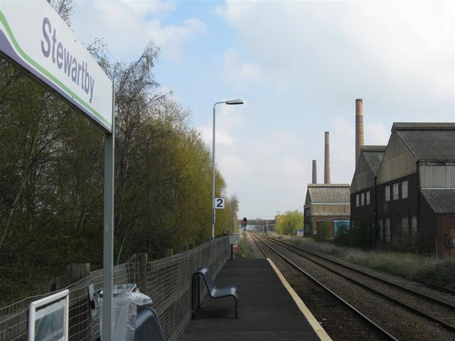 Stewartby railway station. Looking north east towards Bedford from the very minimal station, with three of the four surviving and listed brickworks chimneys in view.